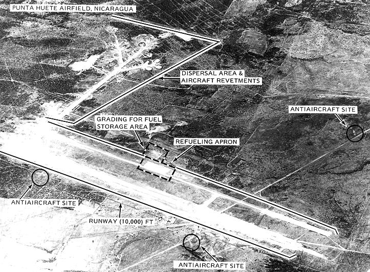 Punta Huete Airfield. From the FAS web-site.